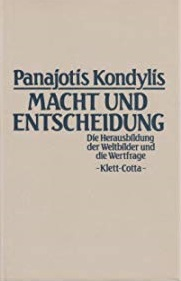 Book cover of Macht und Entscheidung. Die Herausbildung der Weltbilder und die Wertfrage (Power and Decision – The Formation of World Images and the Problem of Values), by Panajotis Kondylis.